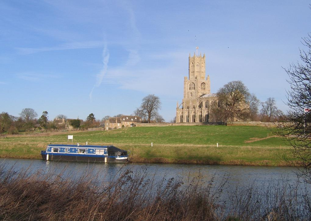 The church of St. Mary and All Saints in the village of Fotheringhay (Northamptonshire) looking north across the River Nene.